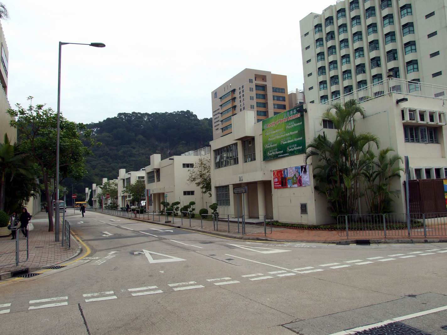 浸會大學道View into Baptist University Road Campus from Renfrew Road. The buildings are part of the HKBU Baptist University Road Campus